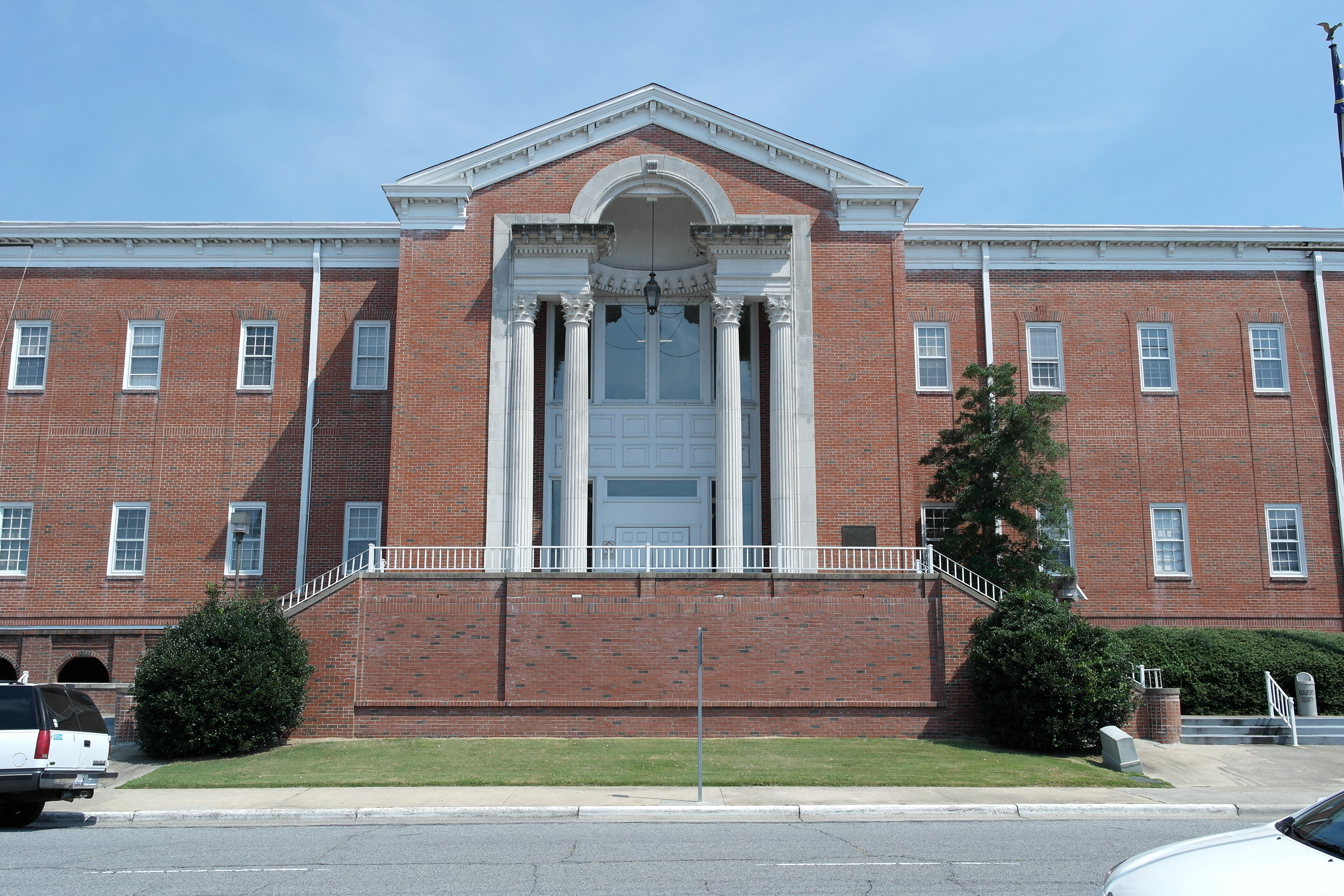 Beaufort County Courthouse, Corner of W. 2nd and Market Sts. Washington